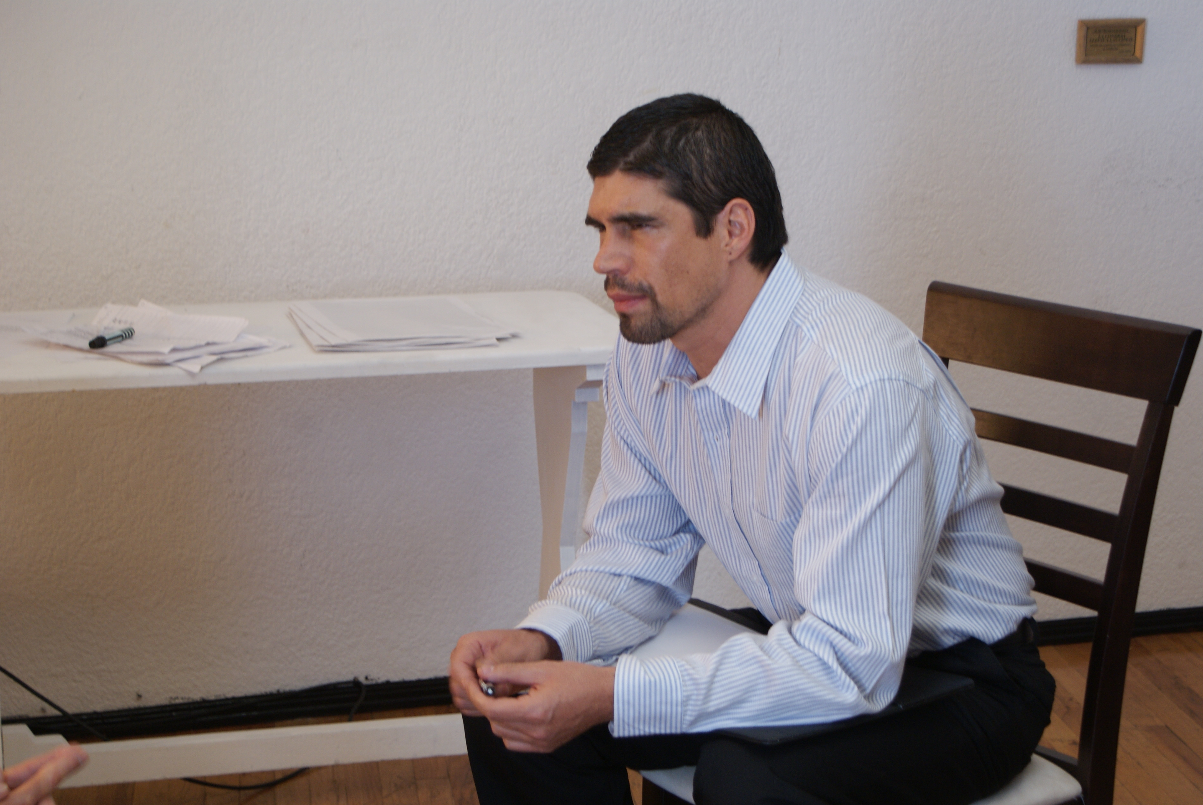 Alberto Estrella in 2008.